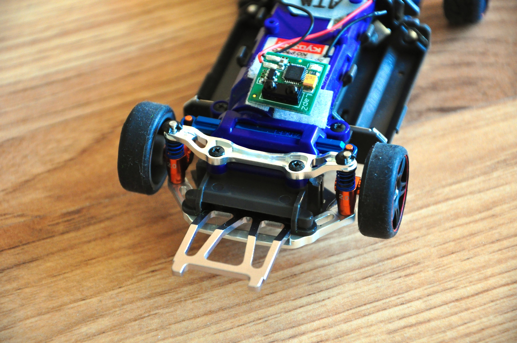 Mini-Z MR-02 Front with Towerbar and LabZ Transmitter